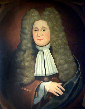 Henry Darnall (1645-1711) of "Woodyard". Unknown artist, after Justus Engelhardt Kuhn's portrait of Henry Darnall. Was bequested to the Maryland Historical Society from Miss Ellen C. Daingerfield.